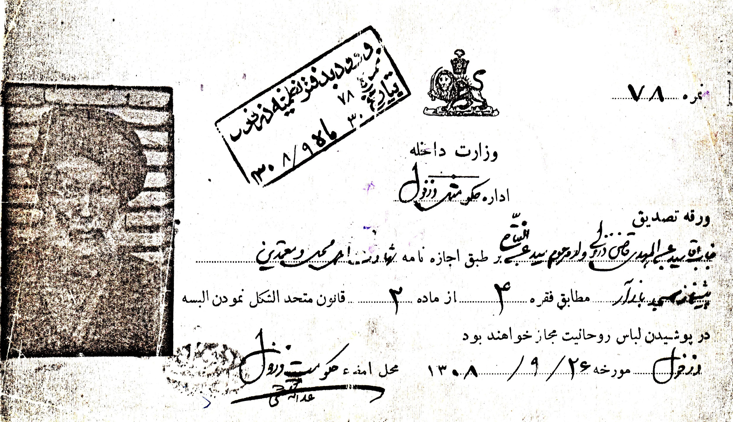 A Verification document for wearing clerical clothing from Police of Dezful, based on Clothing replacement law (1928 law of Iran, which required all male to dress uniformly in Western style replacing)